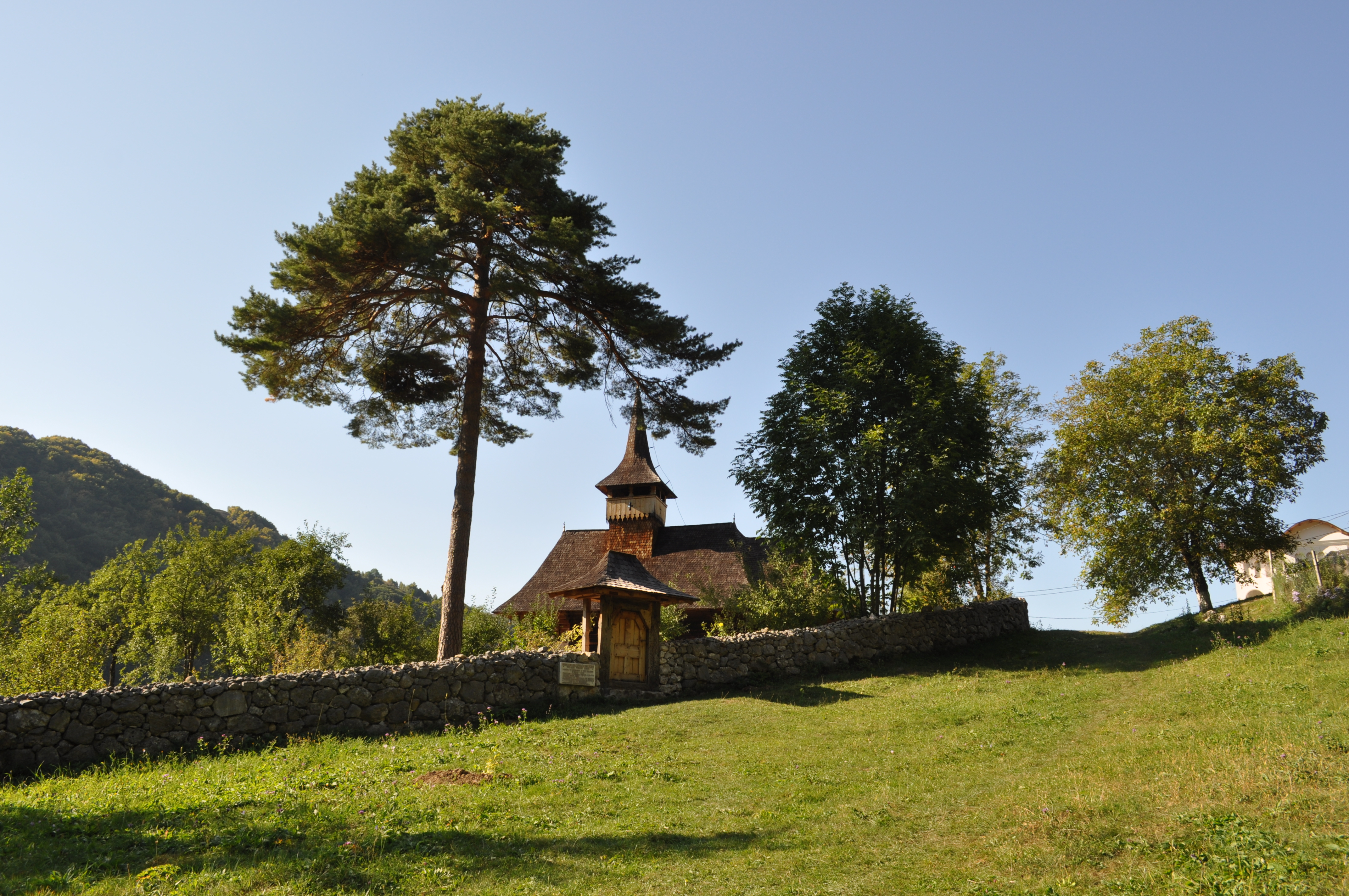 Wooden church in Sub Piatră, Alba countyRomână: Biserica de lemn din Sub Piatră, județul Alba